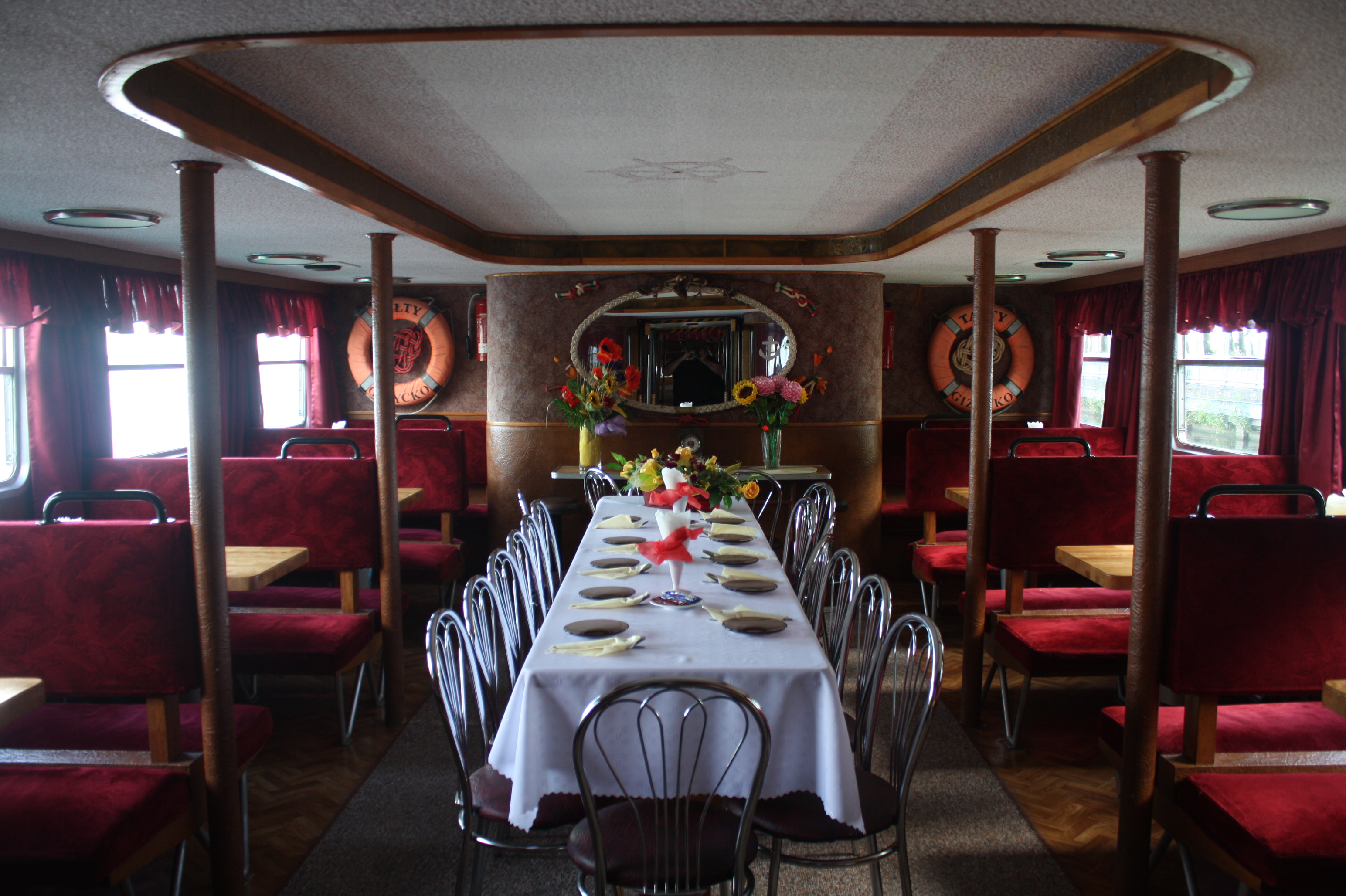 This photo of Warmian-Masurian Voivodeship was taken during Wikiexpedition 2012 set up by Wikimedia Polska Association. You can see all photographs in category Wikiekspedycja 2012. The making of this document was supported by Wikimedia Polska.